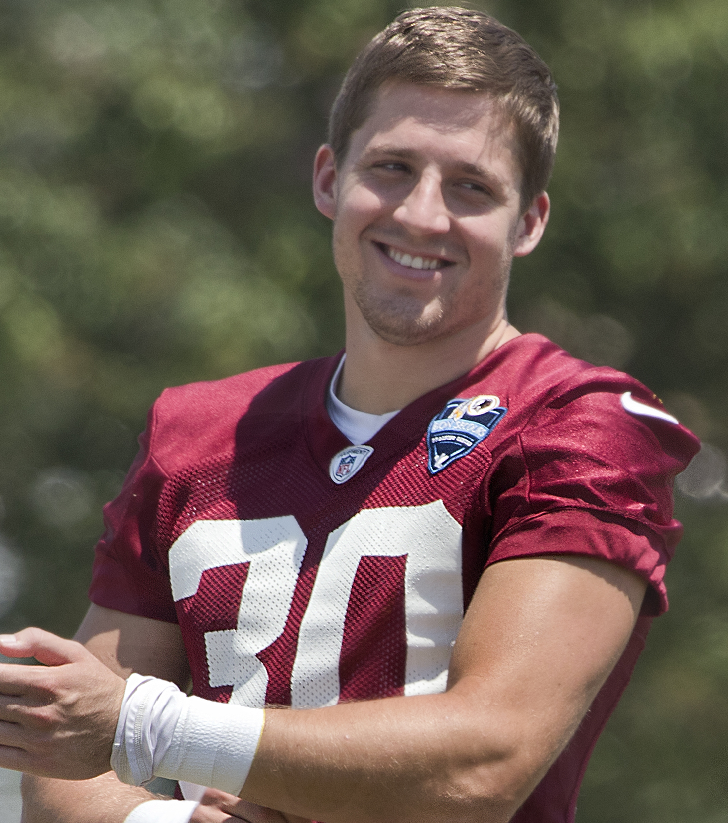 Washington Redskins safety, Troy Apke, at training camp on August 7, 2018